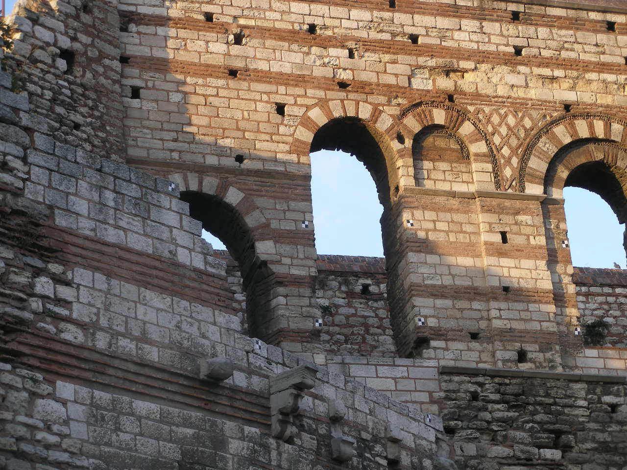 The Palace of Porphyrogenitus, detail of southern wall.